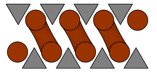 Princip of a goosneck construction